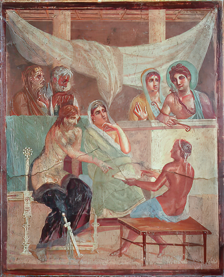 Alcestis and Admetus. Ancient Roman fresco (45-79 d.C.) from the House of the Tragic Poet, Pompeii, Italy.